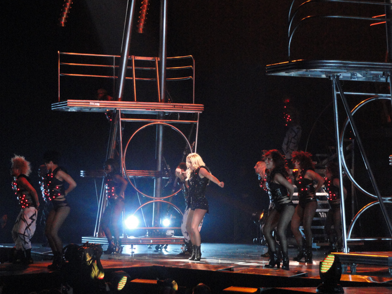 Spears